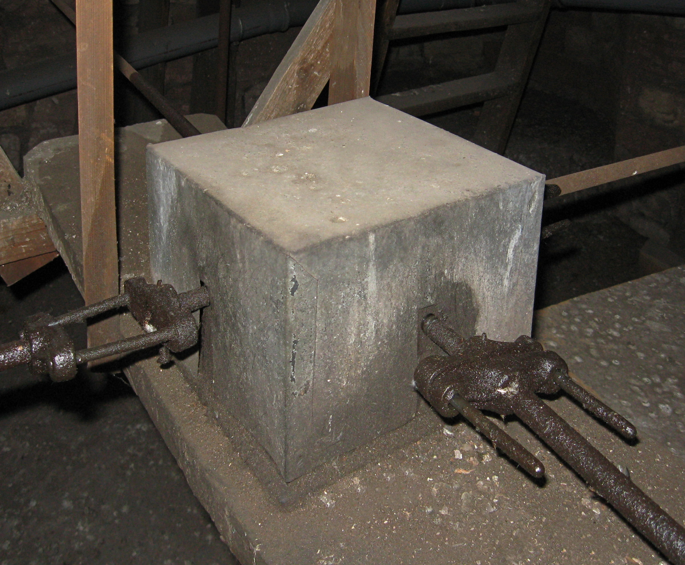 Three-way distribution gearbox turning the spindles of three clock faces of a turret clock.